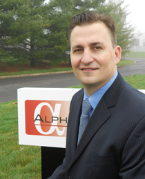 Lazaros Kalemis in front of Alpha Card Services